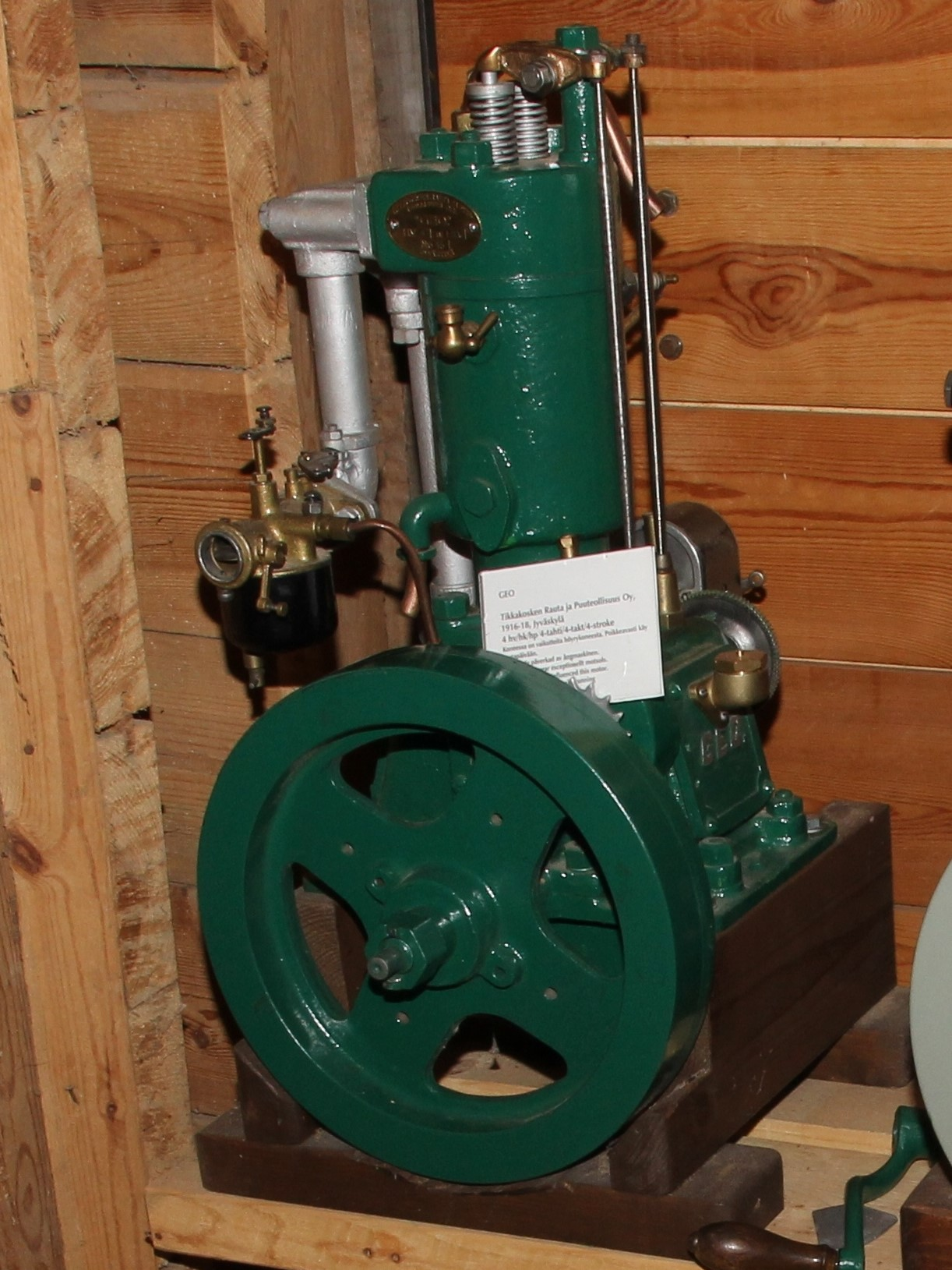 Inboard engines from early 20th century in Forum Marinum maritime museum: 4 hp, 4-stroke engine from 1916-18 by Tikkakoski Rauta ja Puuteollisuus Oy